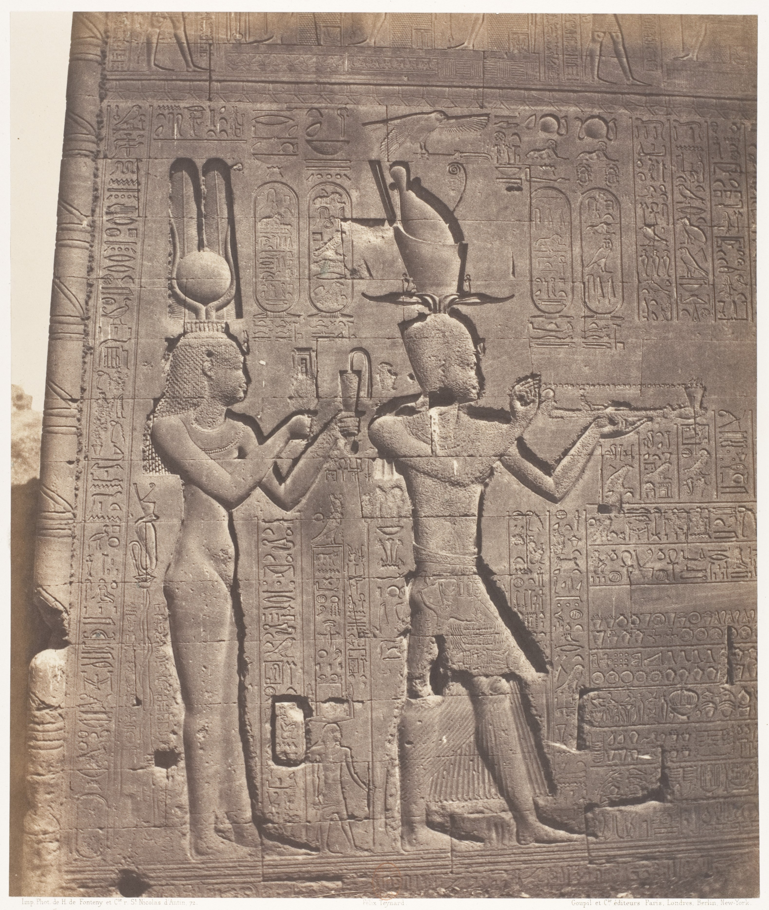 Photograph